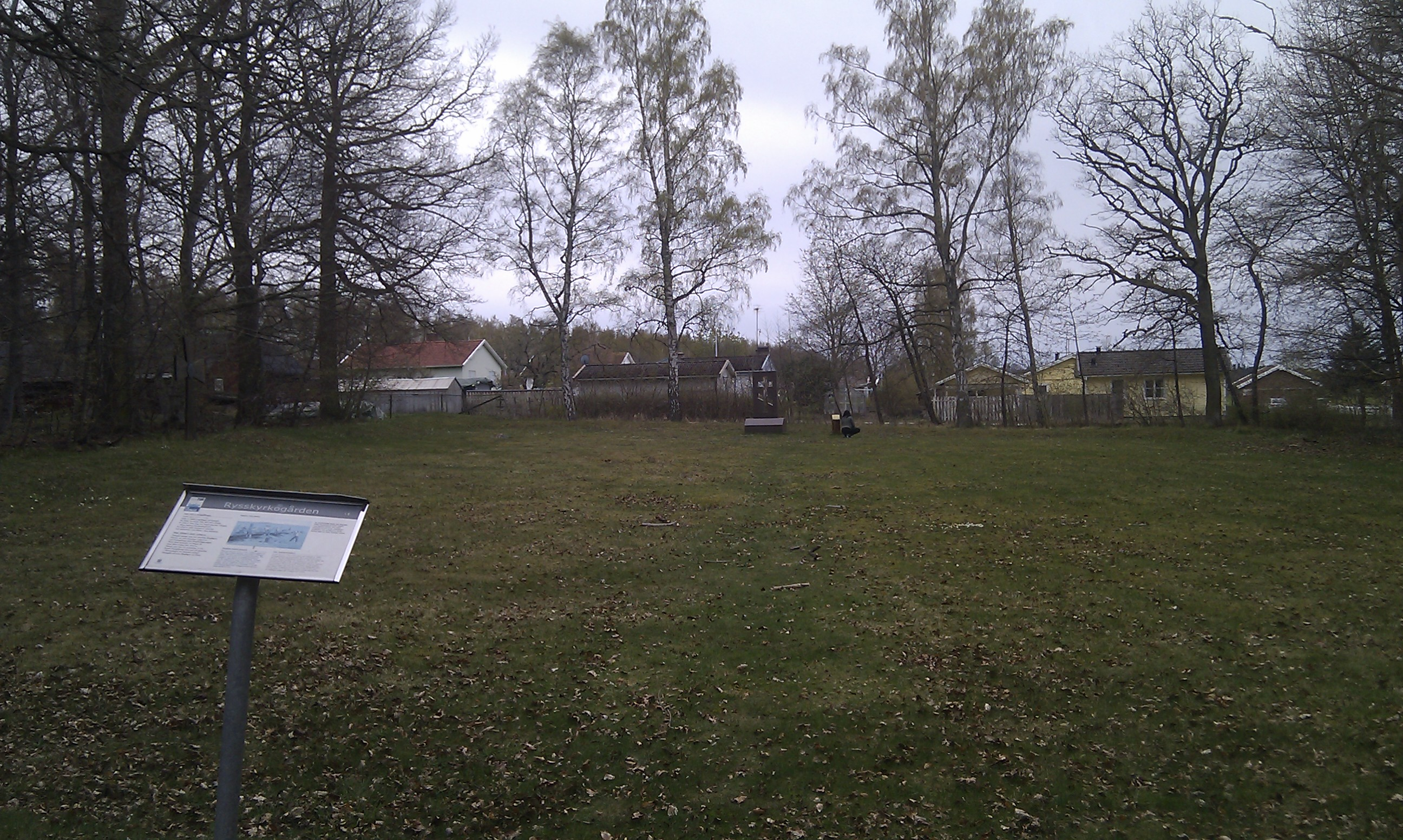 Russian Cemetery on Swedish island Visingsö